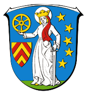 Coat of Arms of Steinau an der Straße